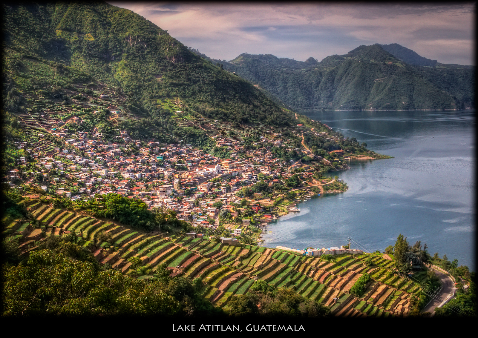 Lake Atitlan in Guatemala is stunningly beautiful. The weather is really nice because it is almost a mile high. We visited just before the hurricane that produced mudslides that buried one of the seven villages. Nicer large. See my Tikal shots. ISO 400, 28mm, f20, 1/125. Don't ask me why. I forgot to change back ISO from a prior shot.